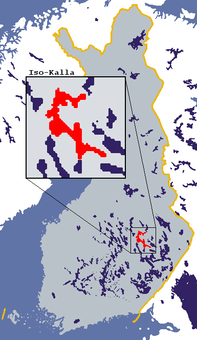 Location of Iso-Kalla (with the lakes Kallavesi, Suvasvesi, Riistavesi and Muuruvesi) in Finland